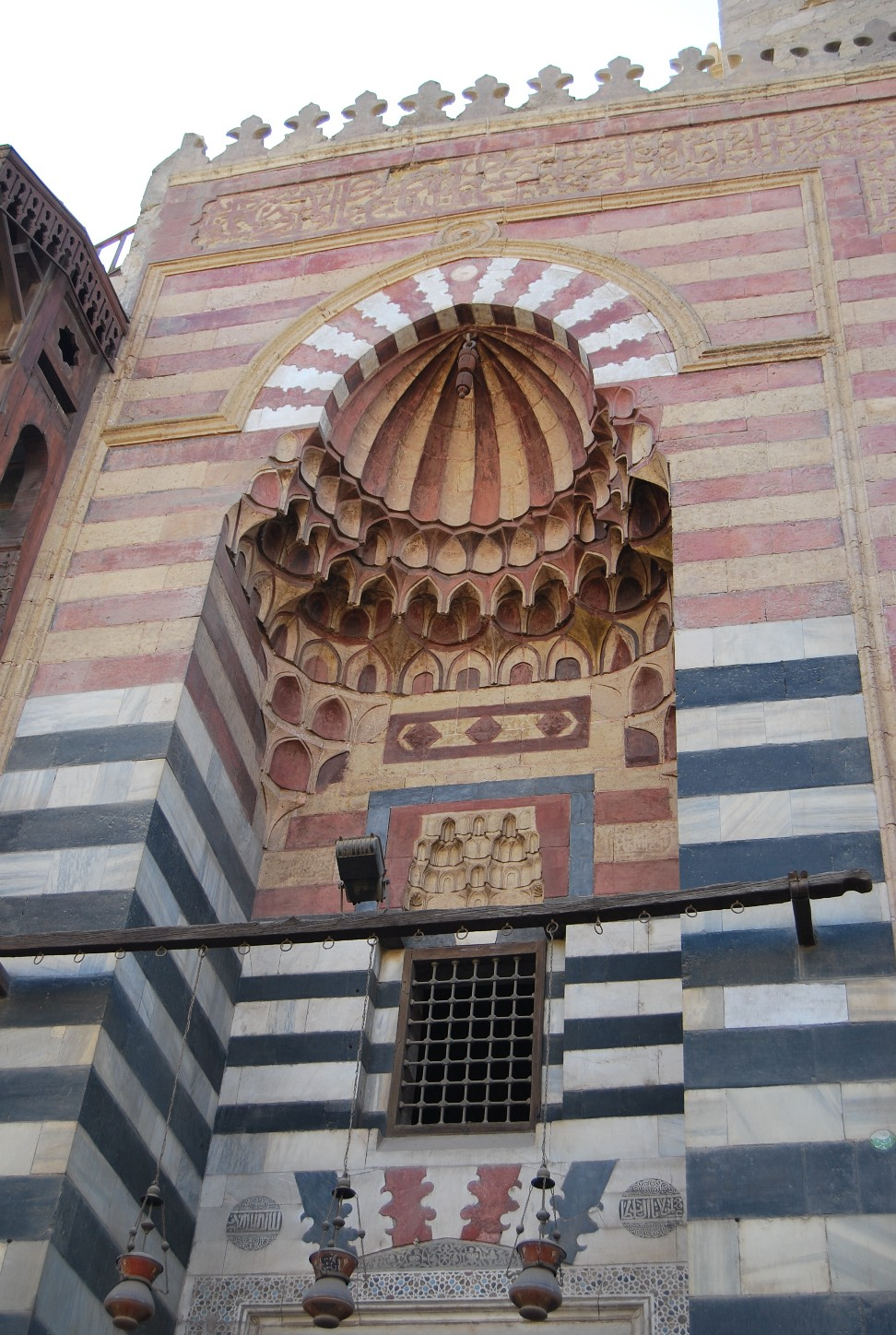 The imposing entrance of the Sultan Ashref Barsbay Mosque in Cairo.